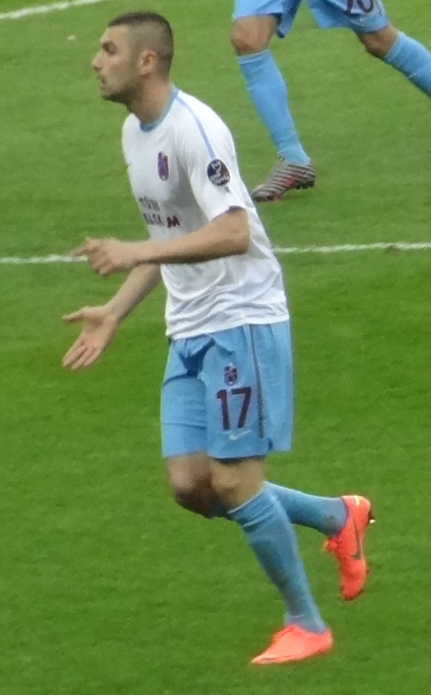 Burak playing against GS